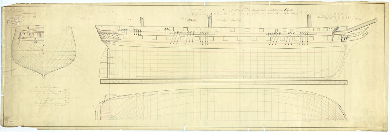 Emerald (1856); Imperieuse (1852) Scale: 1:48. Plan showing the body plan with half sternboard outline, sheer lines, and longitudinal half-breadth for Emerald (1856) and Imperieuse (1852), both 60-gun Large Frigates, as originally designed. Emerald was re-ordered in 1854 as a screw frigate and lengthened, while Imperieuse was re-ordered in 1850 as a screw frigate to a different design. Signed by John Edye [Assistant Surveyor to the Navy] and Isaac Watts [Assistant Surveyor to the Navy]. EMERALD 1856